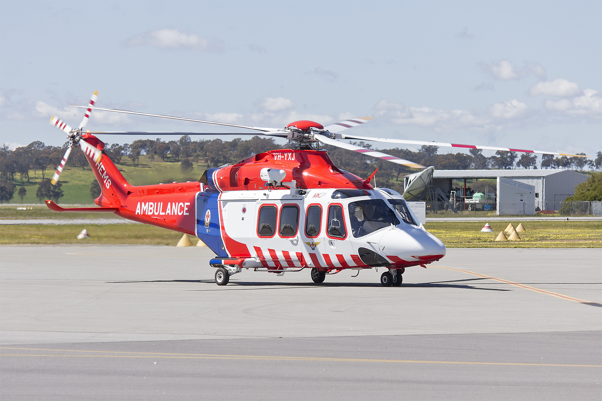 Australian Helicopters (VH-YXJ), operated for Ambulance Victoria, AgustaWestland AW139 taxiing at Wagga Wagga Airport.